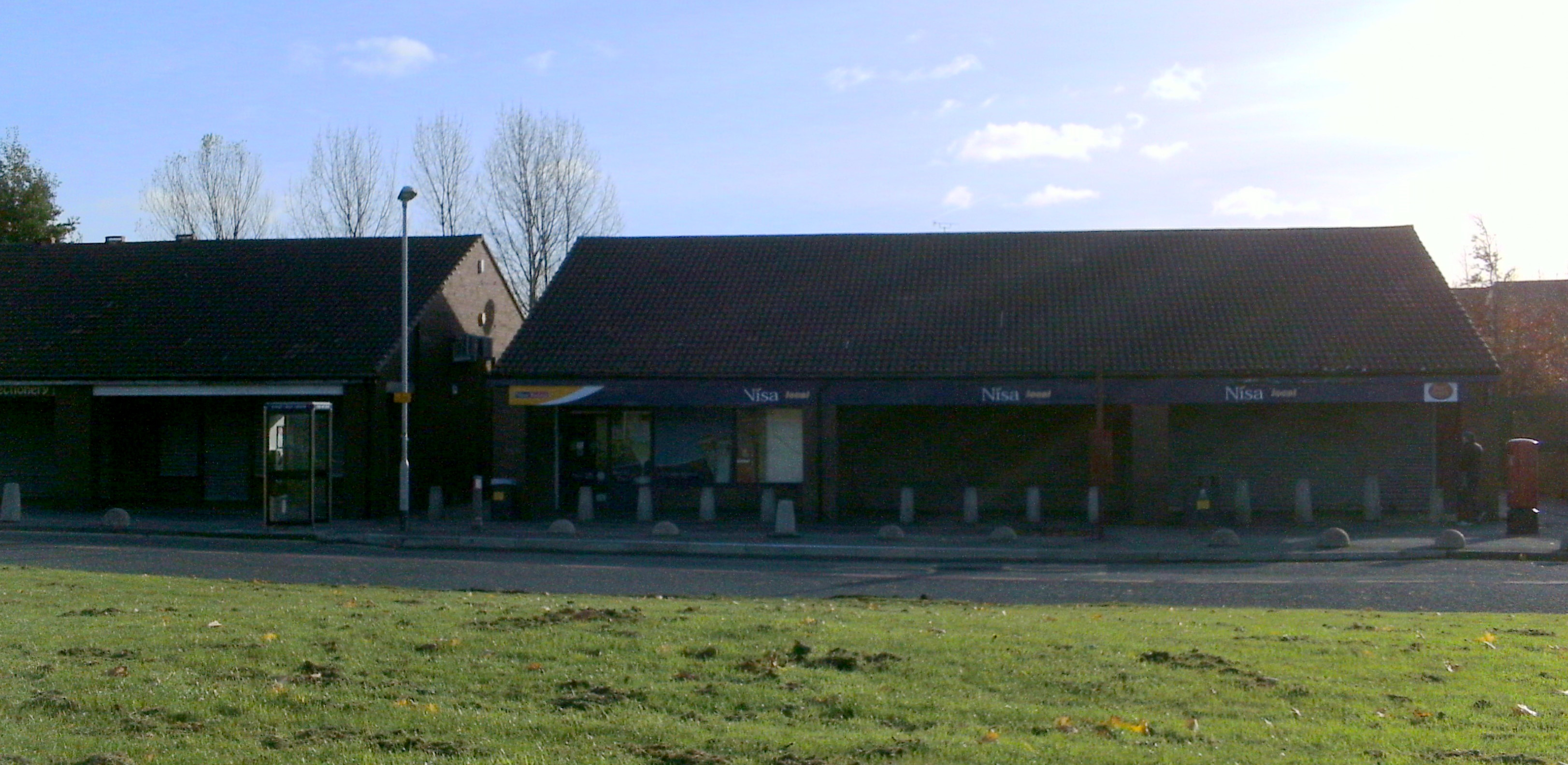 Shops in Whinmoor, Leeds